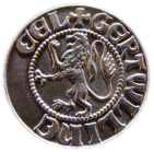 Coin_bredevoort (replica)